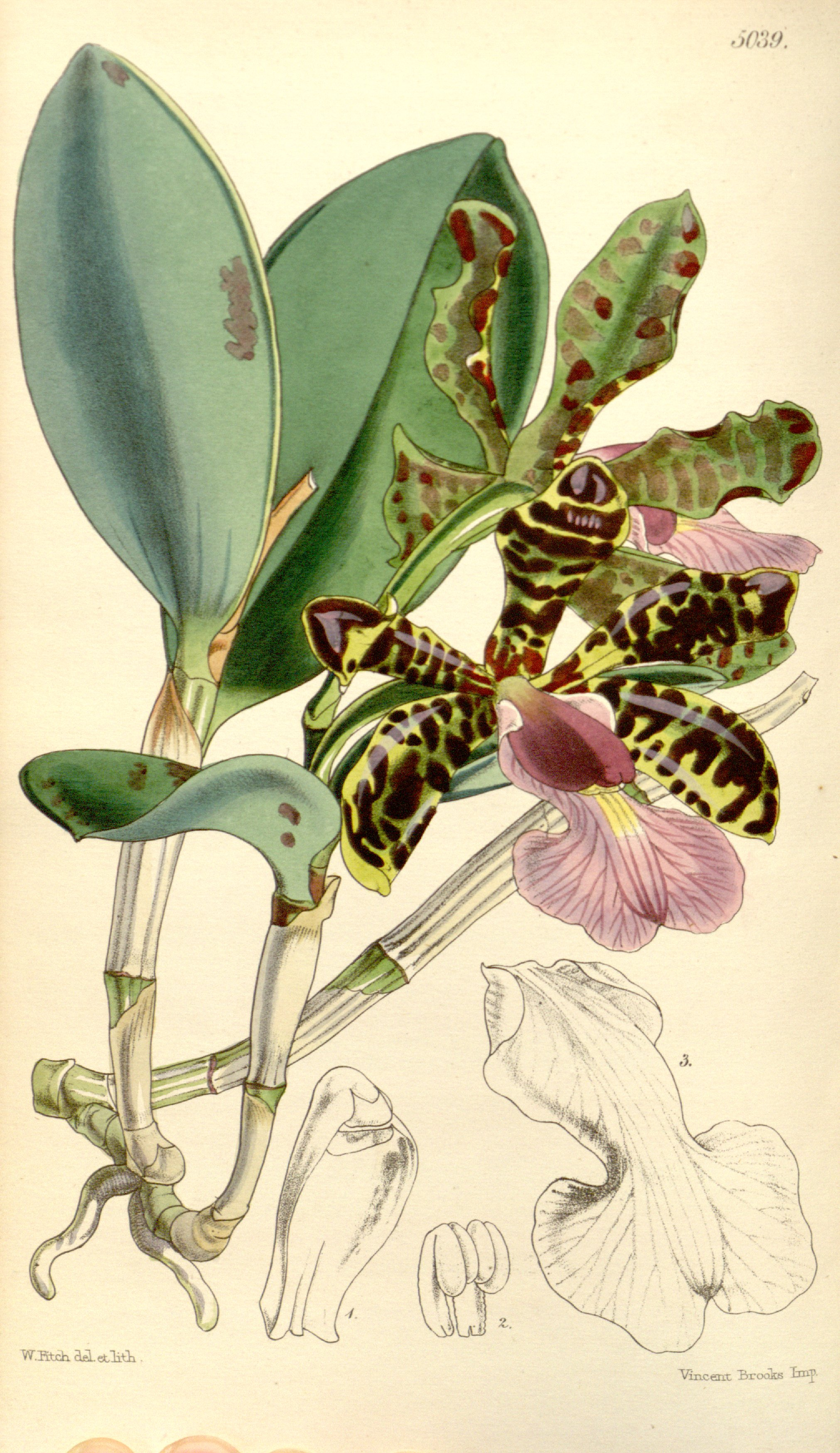 Illustration of Cattleya aclandiae